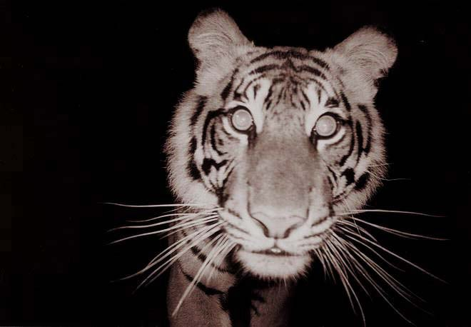 Face on with wild tiger in Sumatra. This animal didn't like camera traps and destroyed three over a weekend.